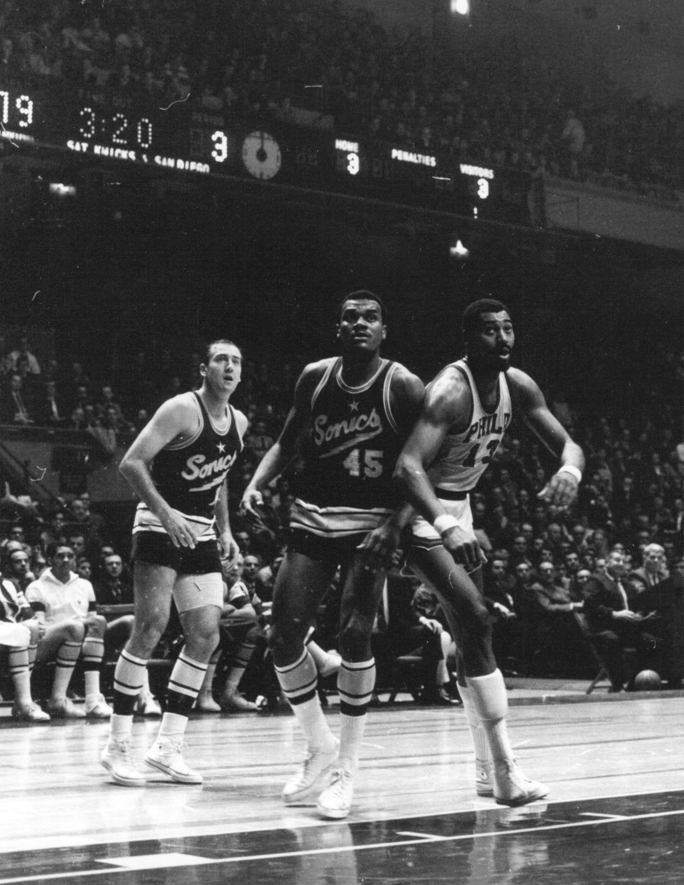 Professional basketball players Tom Meschery (left), Bob Rule (center) and Wilt Chamberlain (right)